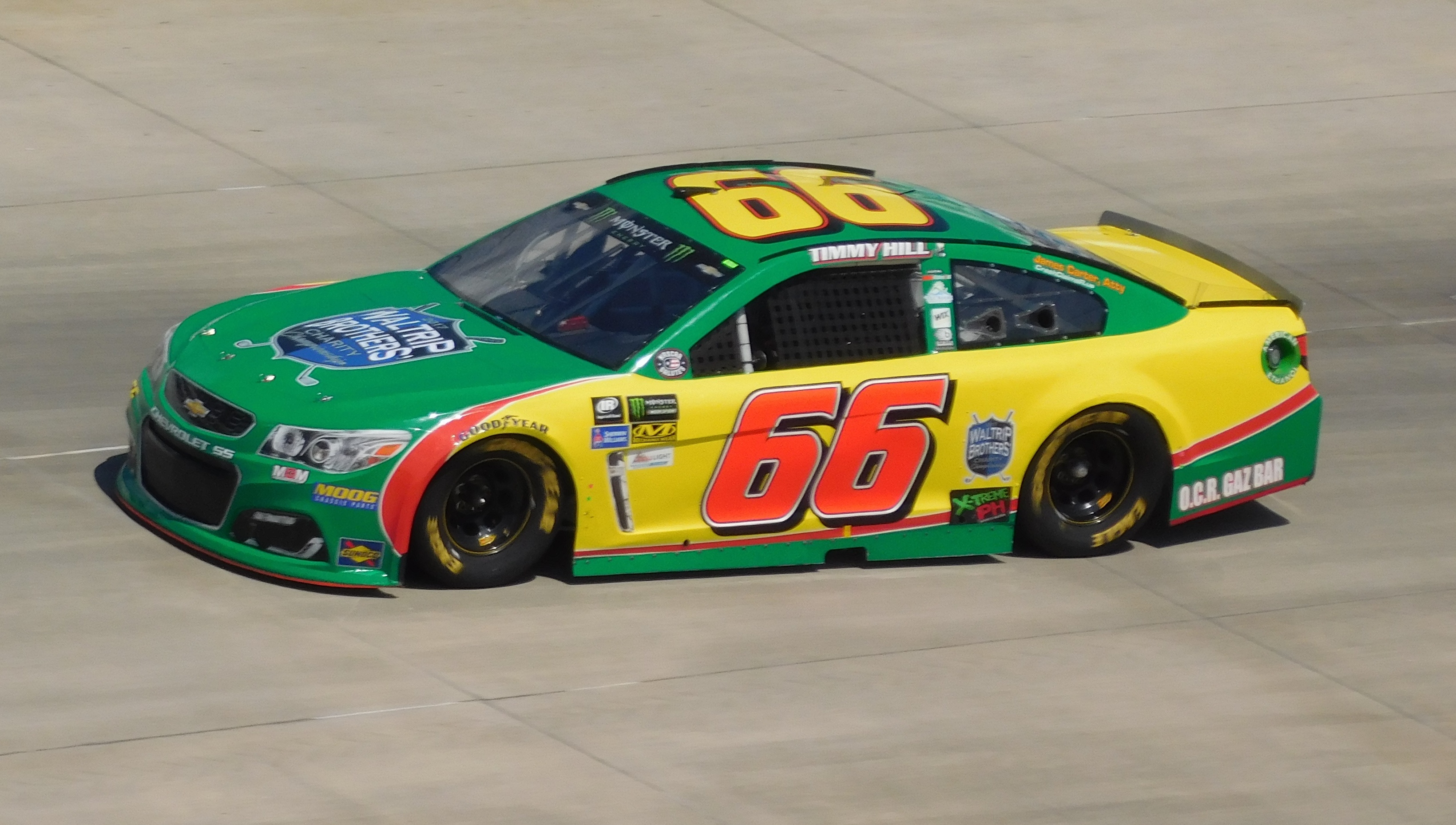 Timmy Hill in the No. 66 Chevrolet for MBM Motorsports at Dover International Speedway in 2017